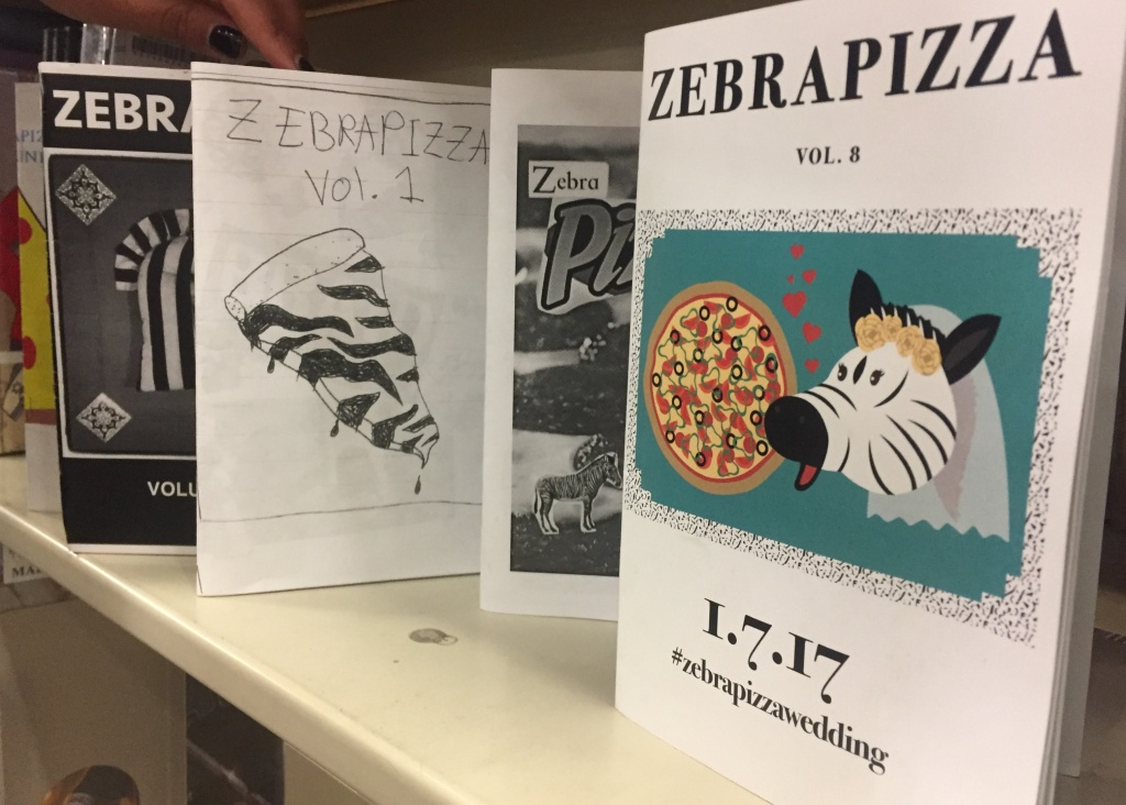 Zines from the Long Beach Public Library.